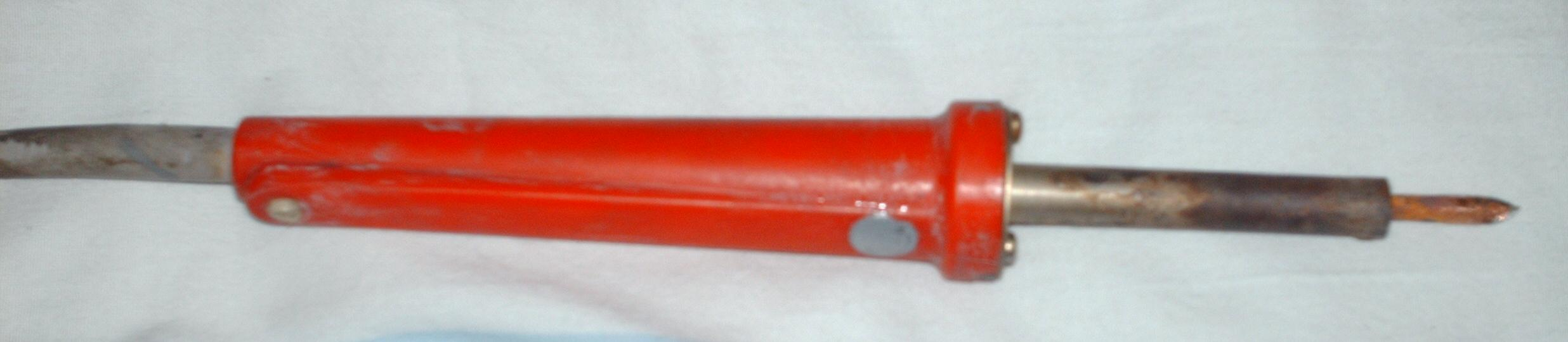 A professional ceramic soldering iron (25 W).